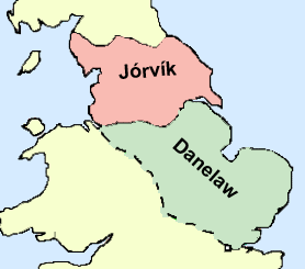 Image depicting the Kingdom of Jorvik and below it Danelaw. I created this myself, under the guidance (to find location of them) of Viking.no